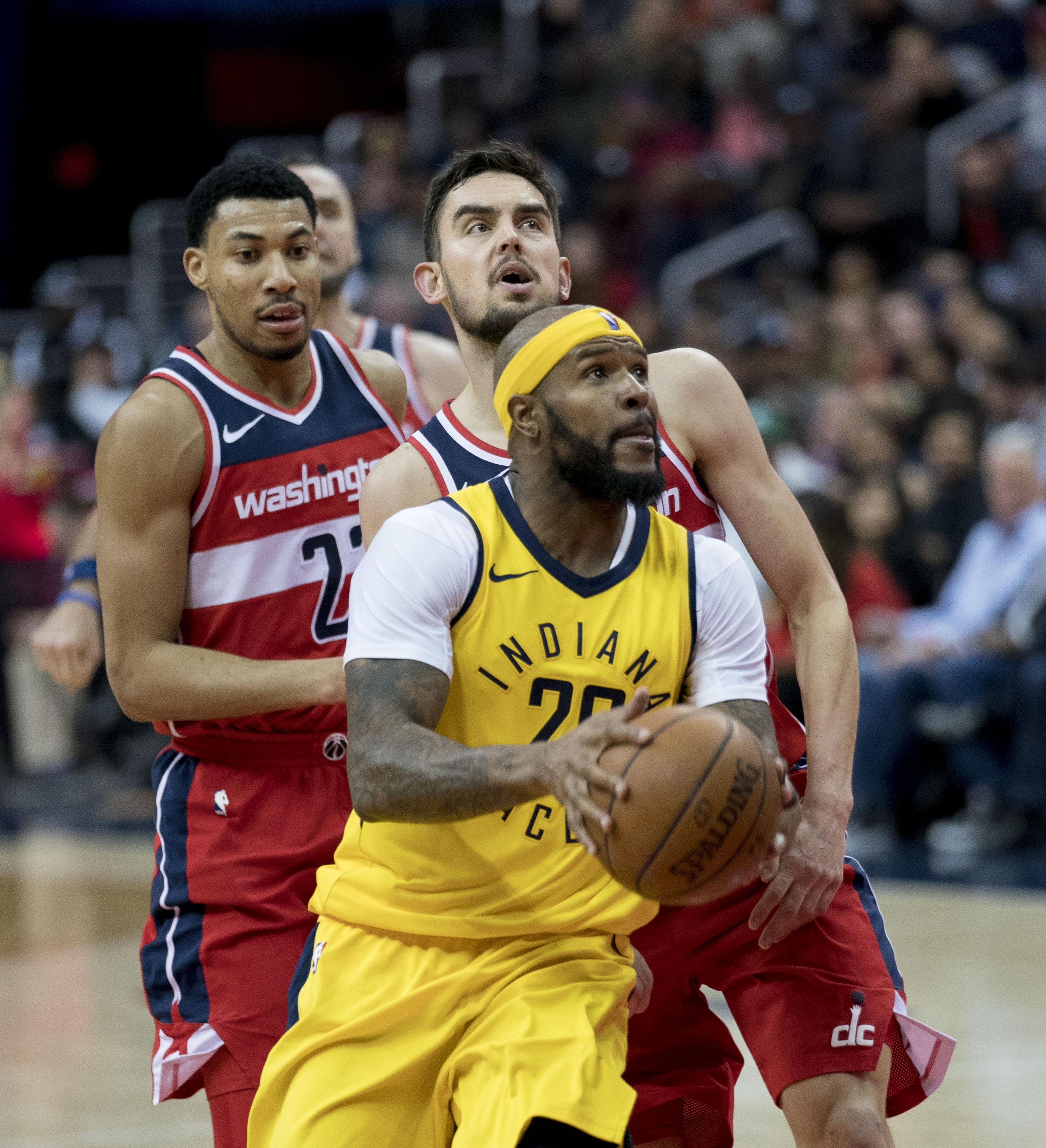 Pacers at Wizards 3/17/18